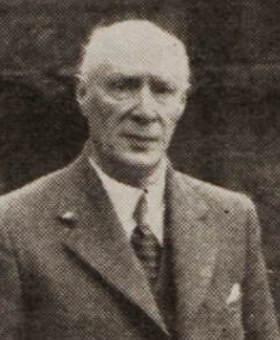 Scottish folklorist and writer Lewis Spence.